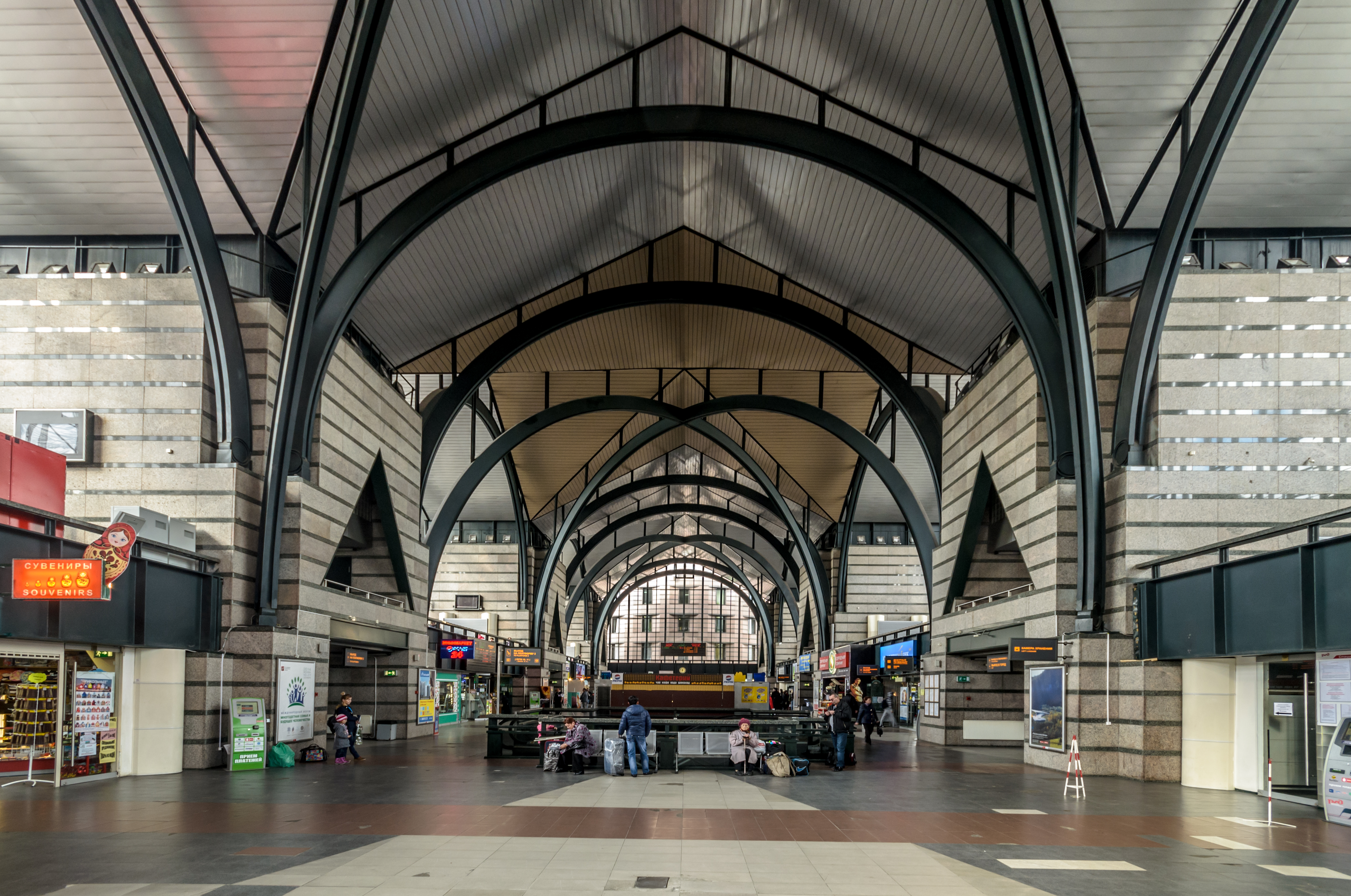 Ladozhsky Rail Terminal in Saint Petersburg, Central Hall